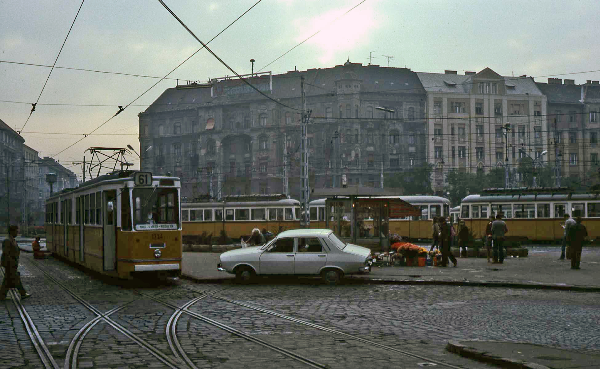 Trams in Móricz Zsigmond körtér of Budapest in 1979. Tramline 61 terminates here.